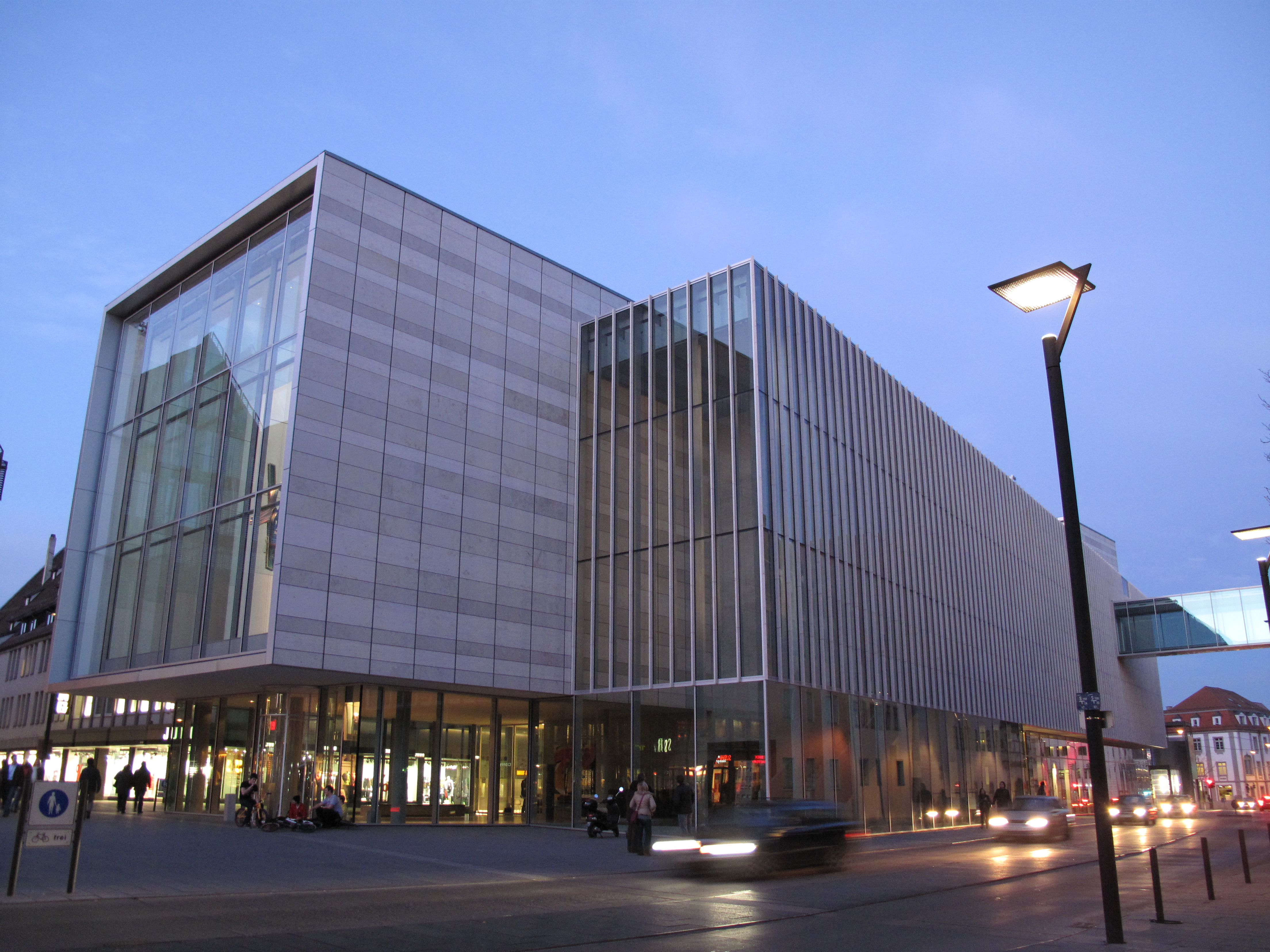 The Kunsthalle Weishaupt (museum) in the city centre of Ulm.